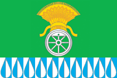 Flag of Tatarsk, Novosibirsk Region, Russia